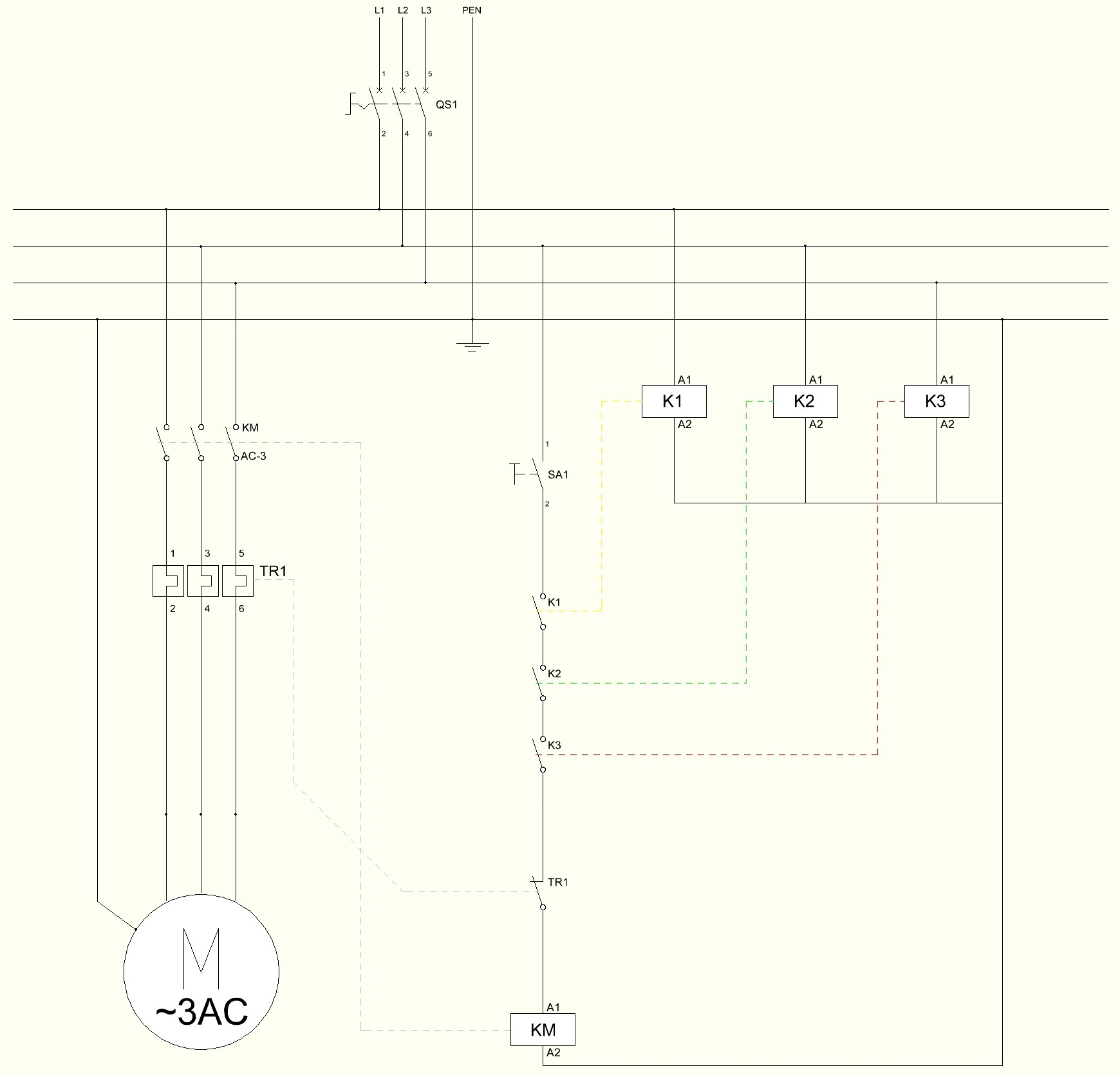 Protection from phases warping.